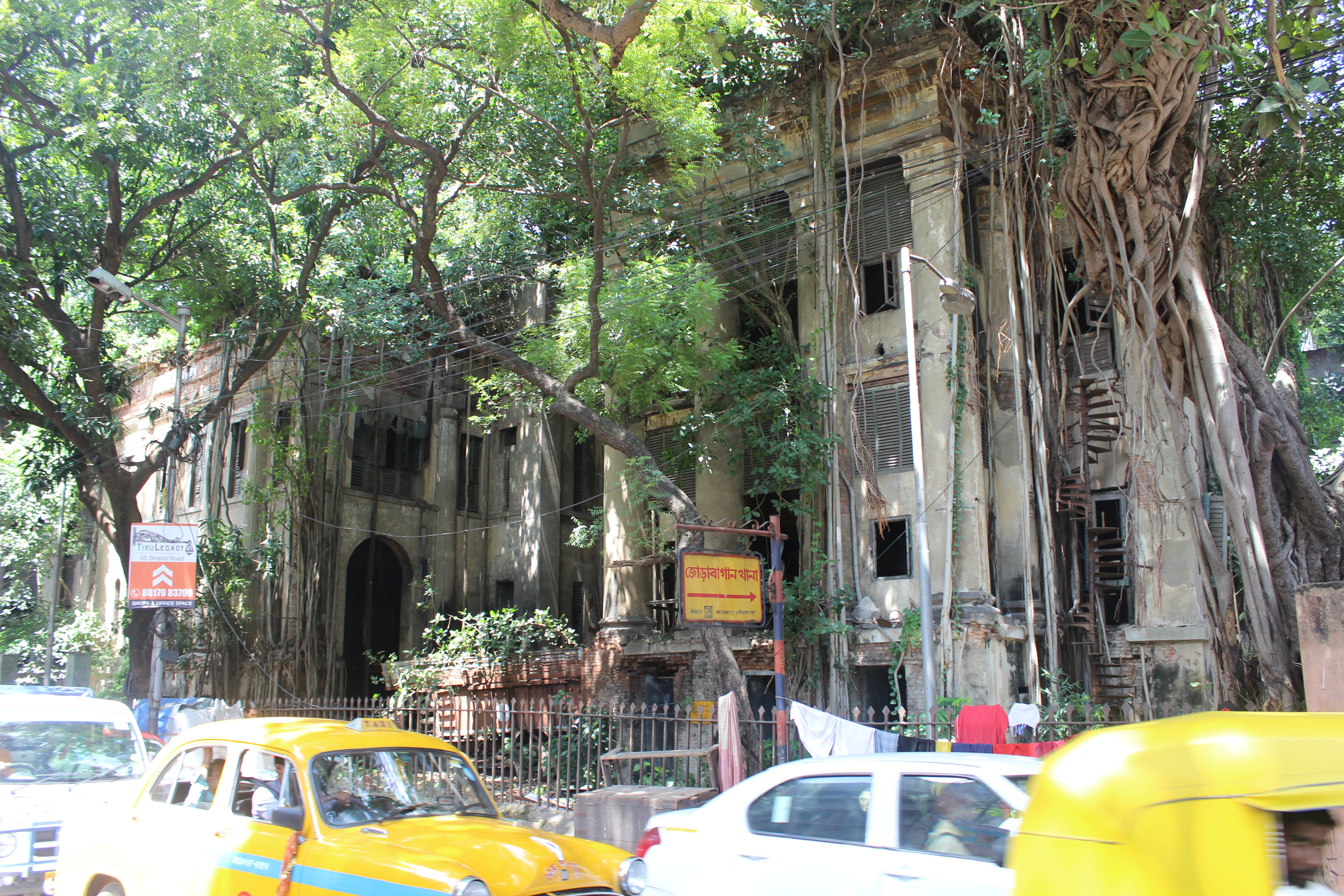 Duff College (Jorabagan Police Station), Nimtala Ghat Street, Kolkata